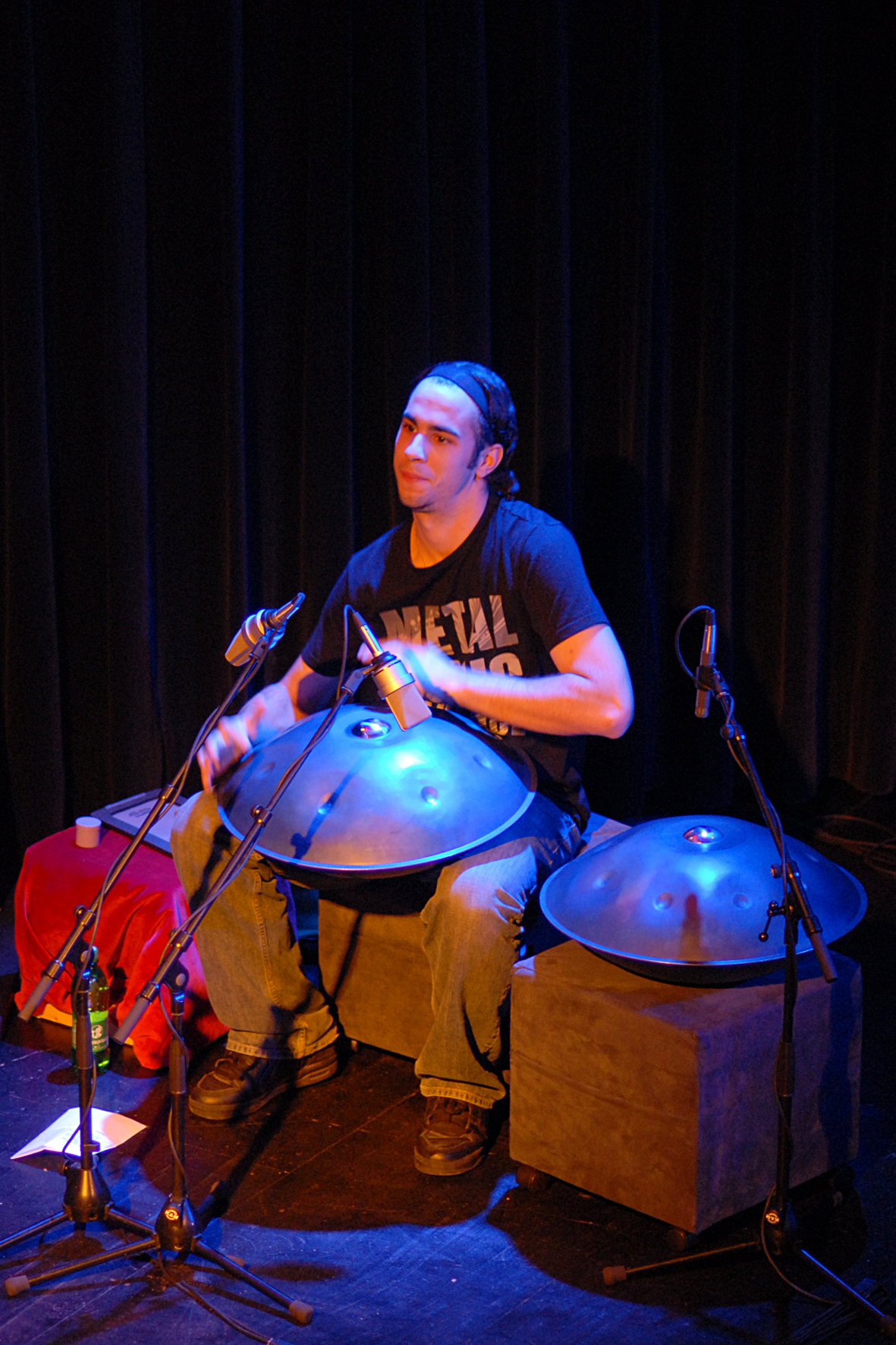 Hang played by Austrian musician Manu Delago